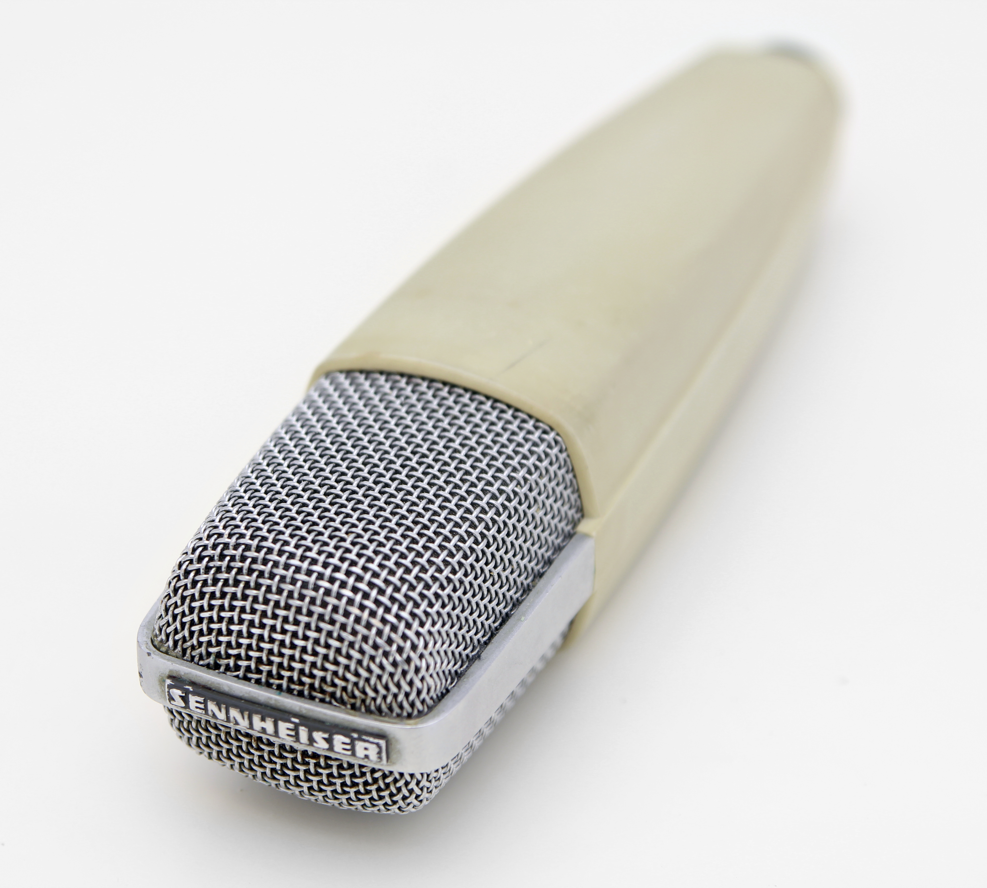 A Sennheiser MD 421 cardioid dynamic microphone from the 1960's or 1970's. Picture created by PJ October 18 2011 using the Canon EOS 550D camera with a Tamron 28-75 mm f/2.8 lens.